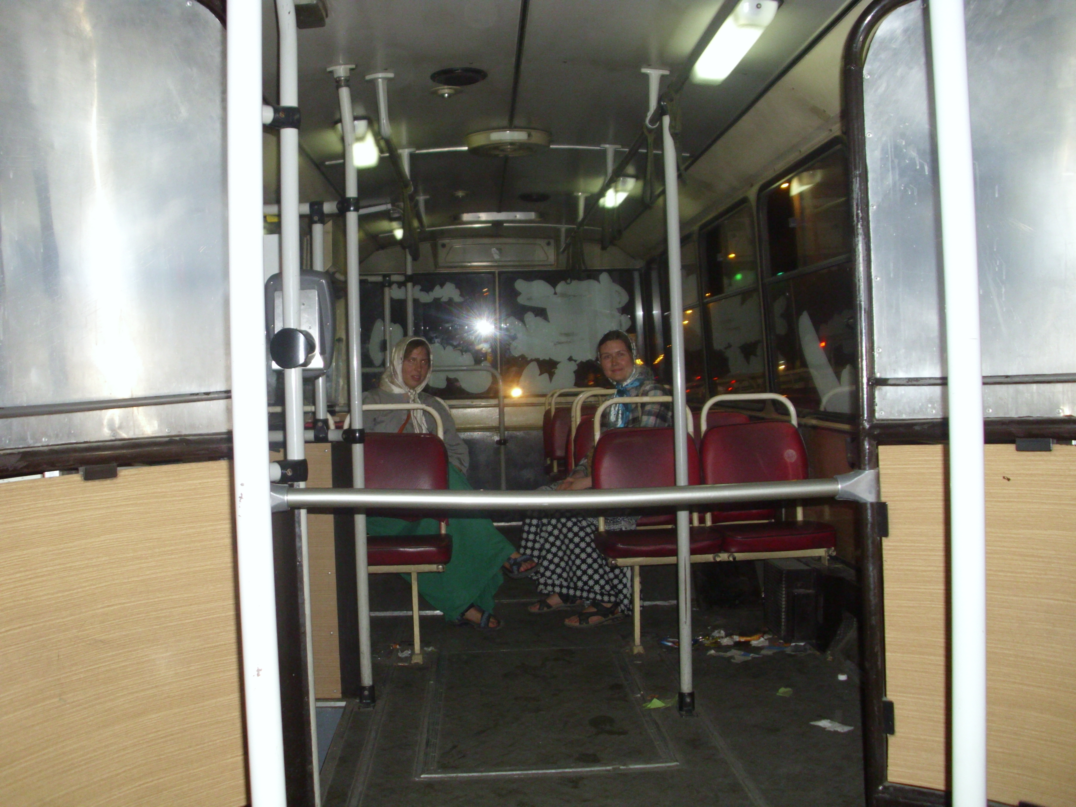 Interior of a Škoda 15Tr trolleybus in Tehran, Iran, looking towards the rear.